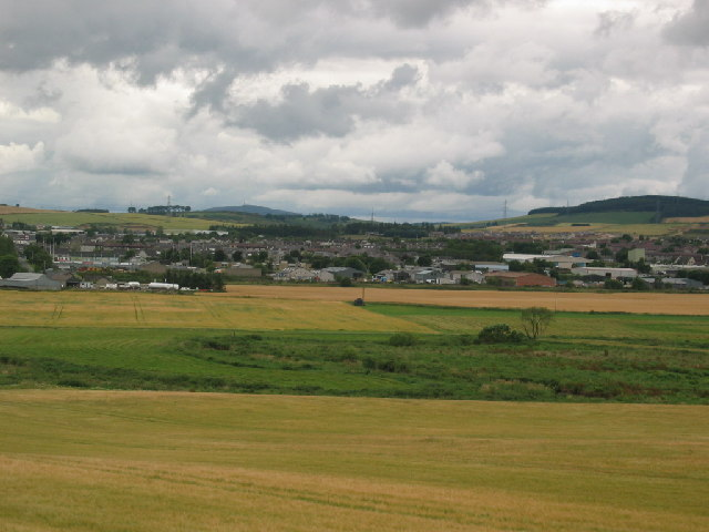 Across the flood plain of the River Urie Taken from the B 9170 looking south west across the grid square.